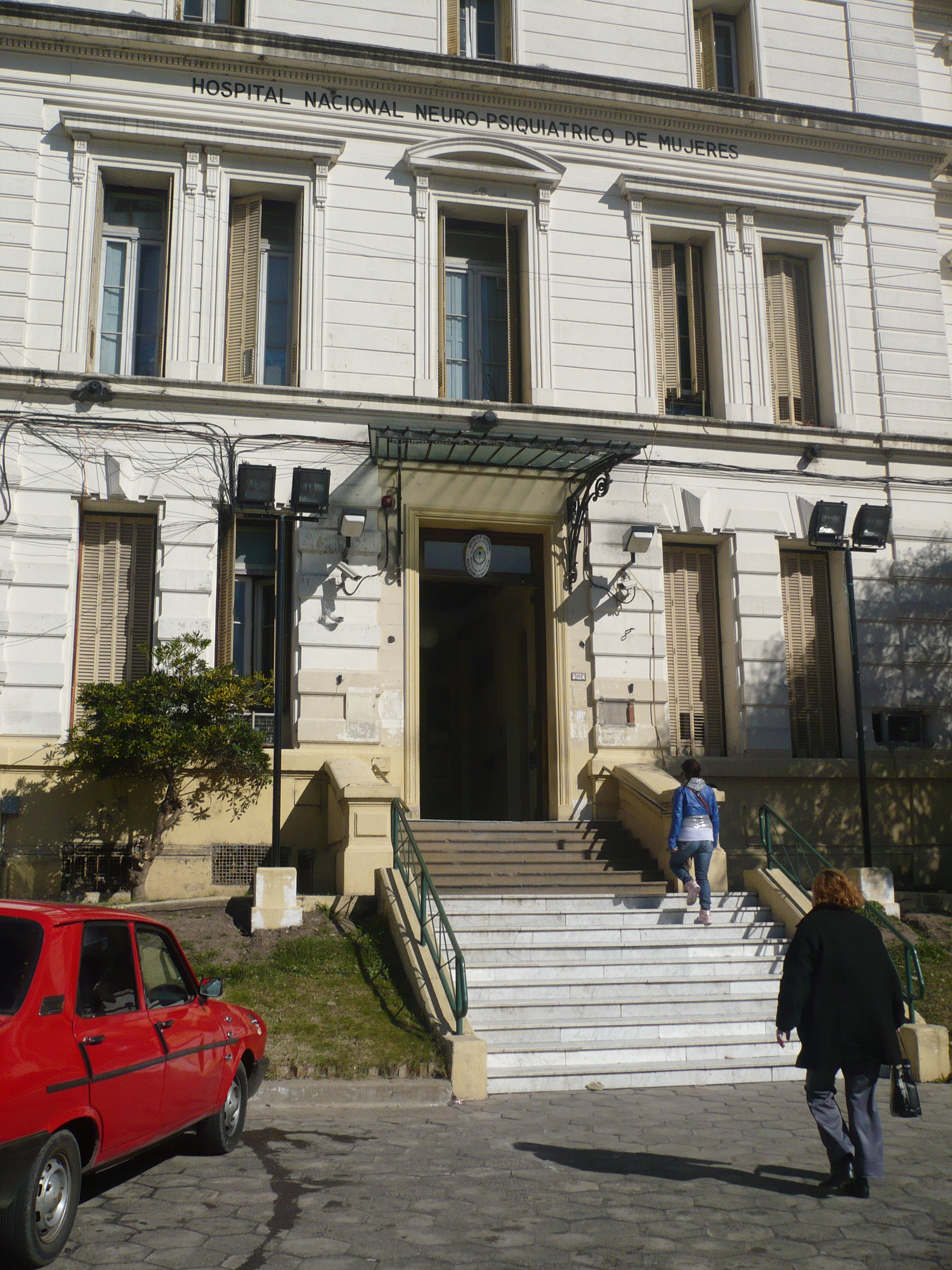 Moyano Hospital - administrative entrance. Brandsen 2570, Barracas, Buenos Aires.